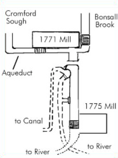 A composite diagram of the watercourses. Orginally The sough originally drained into the brook back in the village, both powered the original mill. The sough was separated and brought along a channel on the south side of Mill Road to the aqueduct. Meanwhile the brook supplied the second mill. A complicated set of channels and sluices controlled the supply, and its drainage into either the river or the canal.